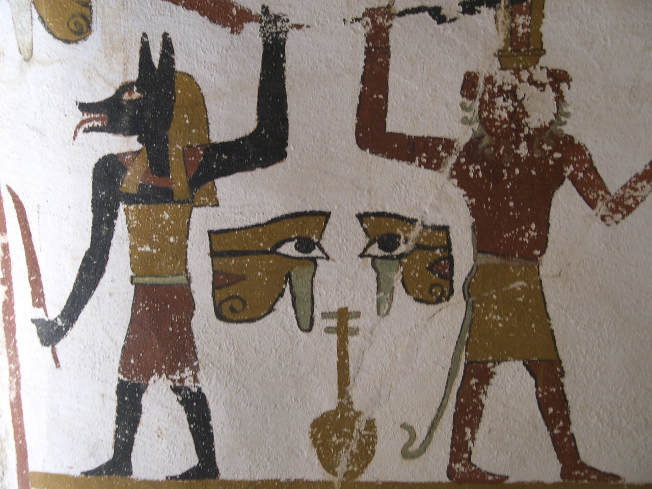 AWIB-ISAW: Paintings from the tomb of Sadosiris at Muzawaka (XXII) A detail of the painting inside the tomb of Sadosiris, depicting lion and jackal-headed guardian deities with swords, and two Oudjets with a lute between them. by NYU Excavations at Amheida Staff copyright: NYU Excavations at Amheida (used with permission) photographed place: (Gebel el-Muzawaka) authority: Image published on the authority of the Amheida Project Director, Roger Bagnall Published by the Institute for the Study of the Ancient World as part of the Ancient World Image Bank (AWIB). Further information